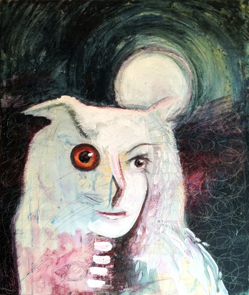 "Evolution of the Feather" by Sheila Cameron Acrylic, Pencil, Ink, Oil on Canvas 20" x 24"